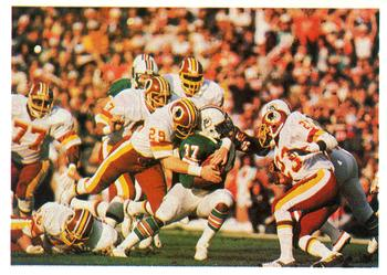 A football card from the 1986 Jeno's Pizza NFL football card stickers set of Washington Redskins safety Mark Murphy (left) tackles Miami Dolphins running back Andra Franklin (right) in Super Bowl XVII at the Rose Bowl on January 30, 1983. The card is numbered #9 in the set. The back of the card reads: HERE COME THE REDSKINS Washington safety Murphy (29) leads a four-man defensive swarm, as he tackles Miami's Andra Franklin in Super Bowl XVII. The Redskins came from behind twice to win the game 27-17. Murphy, who led the team in tackles during the year, also broke up a Miami drive in the Super Bowl with an interception on the Washington 5-yard line.